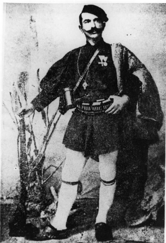 Portrait of greek revolutionary in Macedonia Nikostratos Kalomenopoulos - kapetan Nivas, Nidas etc.